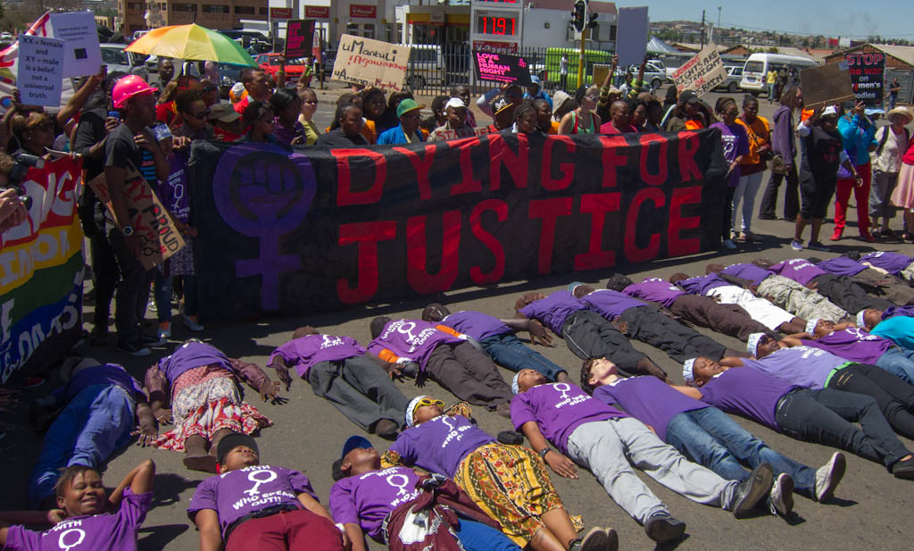 Soweto Pride 2012. The protest banner reads "Dying for Justice" and the T-shirts read "Solidarity with women who speak out".